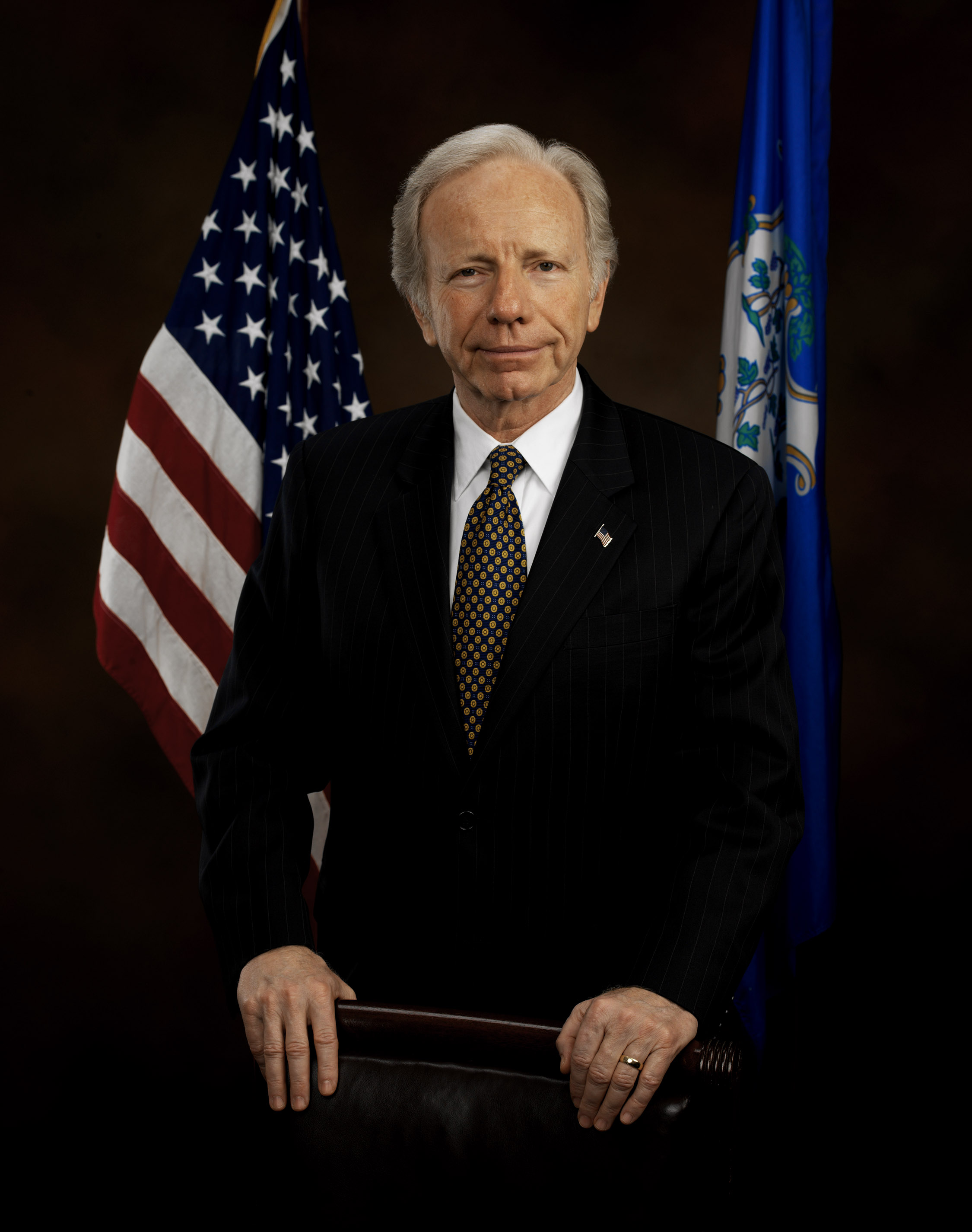 Joe Lieberman, official photo.